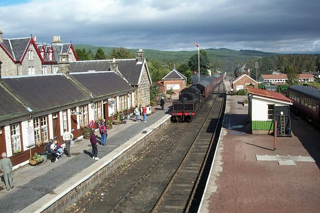 Boat of Garten The intermediate station between Aviemore and Broomhill, originally part of the Great North of Scotland Railway, now run by the Strathspey Railway Company. Loco 46512 running tender first.